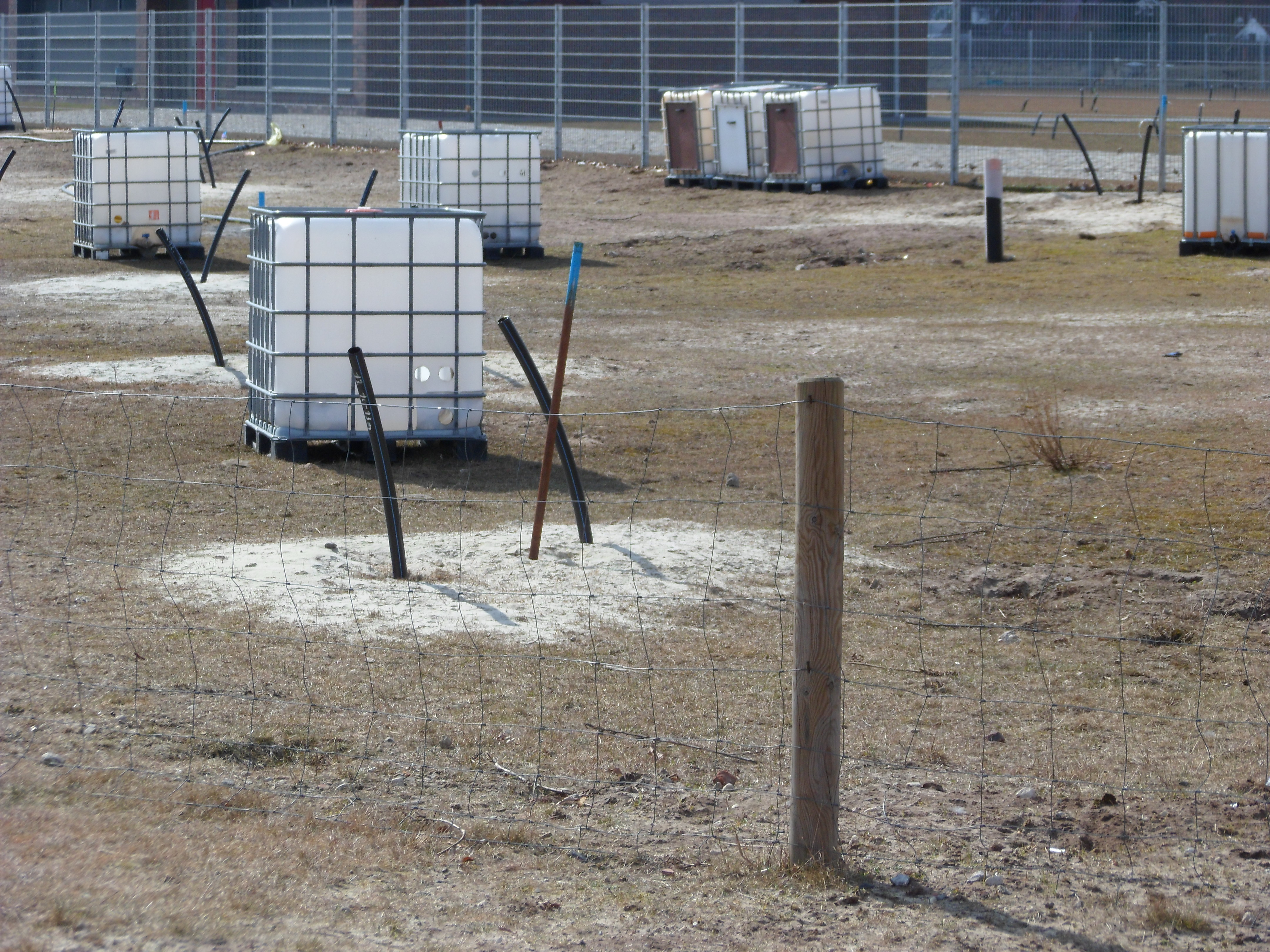 Nordhorn, Bodenaufbereitung Nino-Gelände